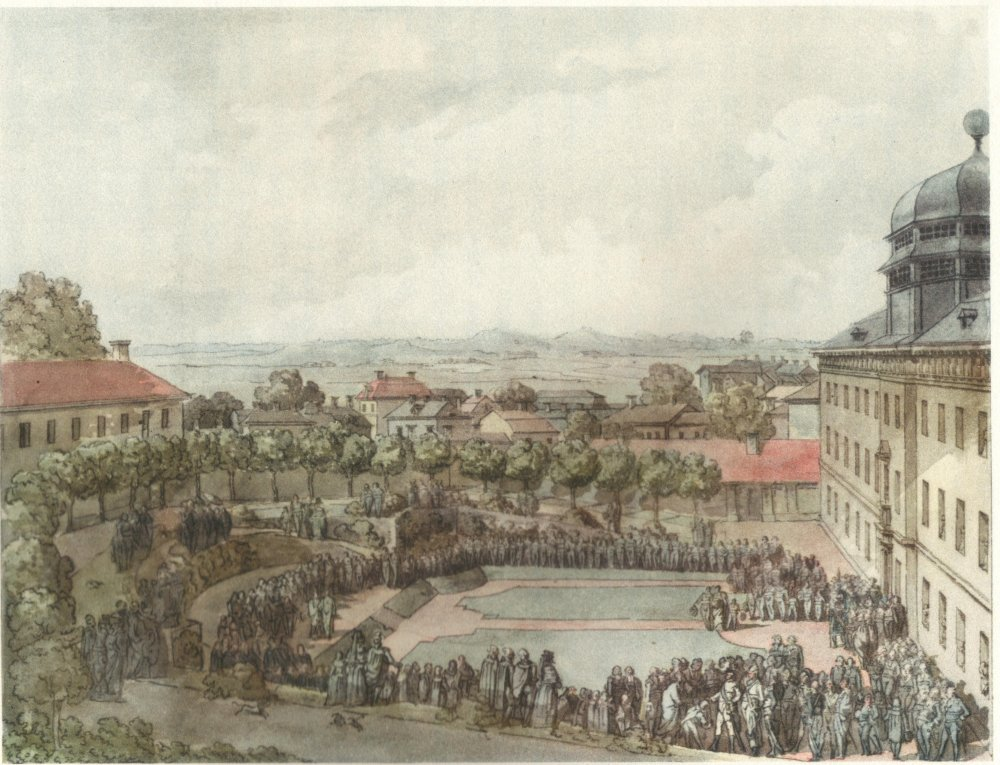 Gustav III of Sweden receives the staff and students of the university of Uppsala in the garden outside Gustavianum in 1786. 1792 drawing by Louis Jean Desprez. Available at the Nationalmuseum national museum of art, Stockholm.